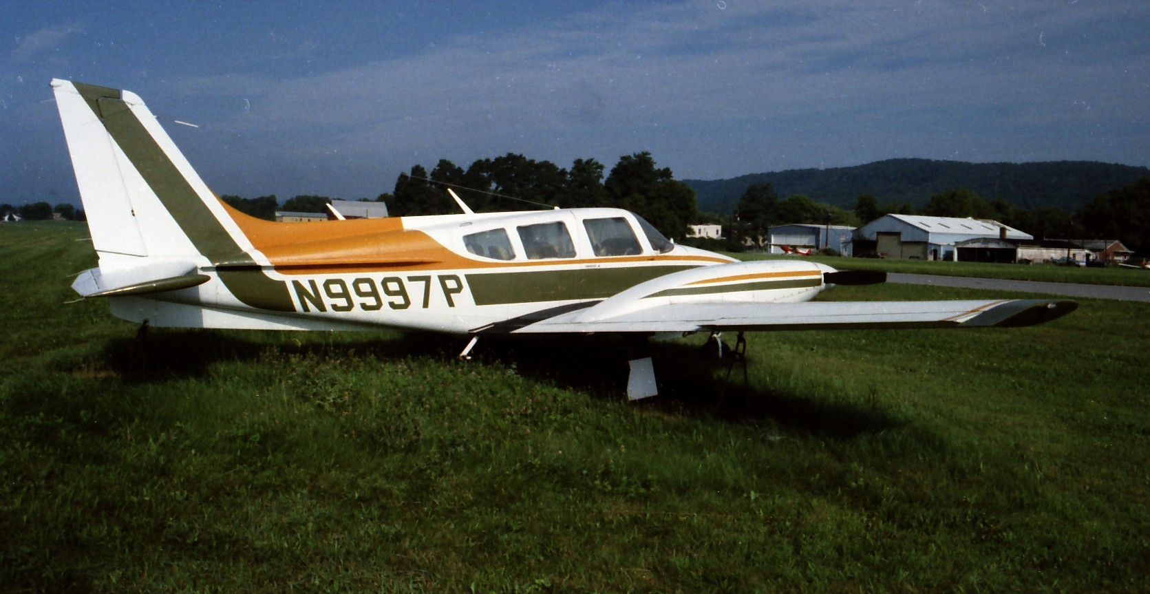 Piper PA-40 Arapaho in 1974 in Lock Haven, PA I took this picture in 1974 in Lock Haven, PA